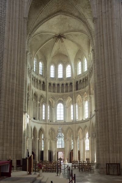 Soissons; Cathédrale; Picardie, Aisne; France; ref: PM_103223_F_Soissons; Cultural heritage; Cultural heritage/Cathedral; Europe/France/Soissons; Wiki Commons; photo: Paul M.R.Maeyaert; © Paul M.R. Maeyaert